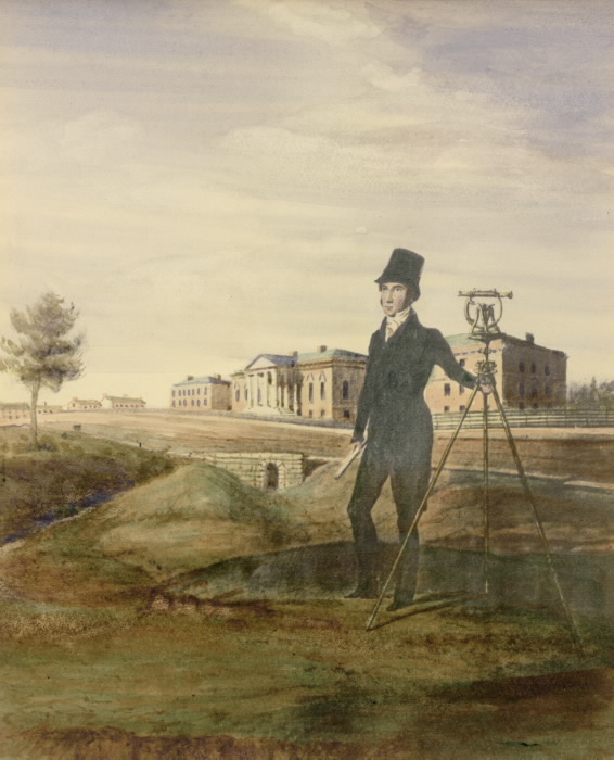 Watercolour of John George Howard at work in Toronto. This painting hangs at Colborne Lodge, his home.